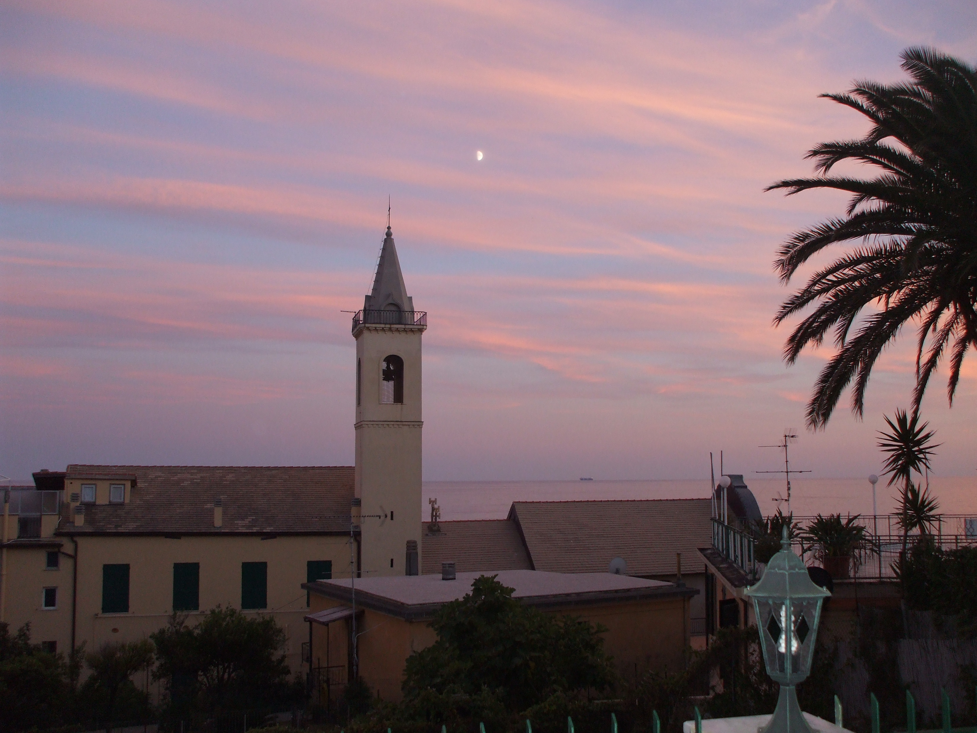 Varazze - The church of Santa Caterina